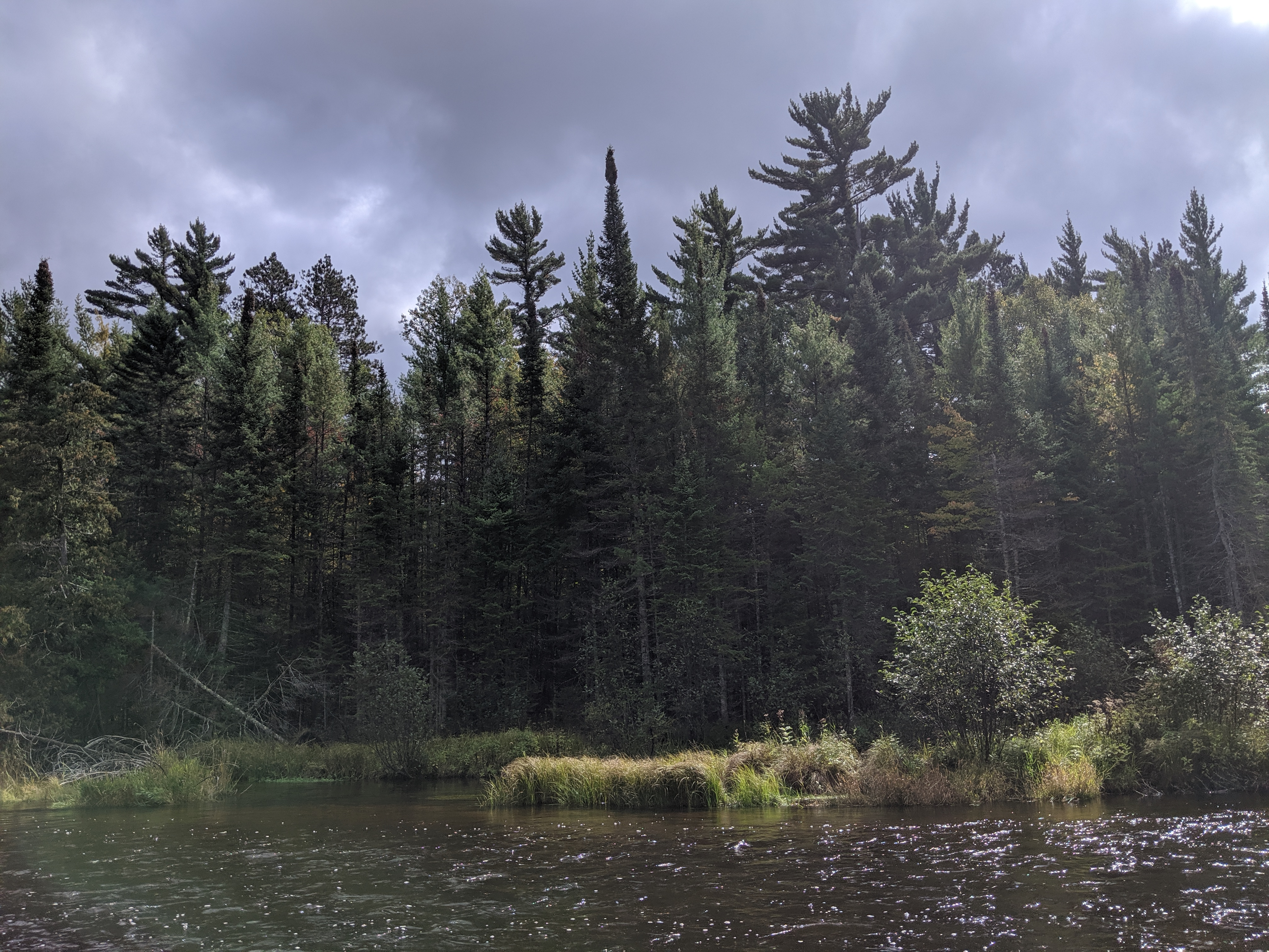 Pine forest in the Mason Tract section of the Au Sable State Forest, Michigan, as seen from the bank of the South Branch Au Sable River